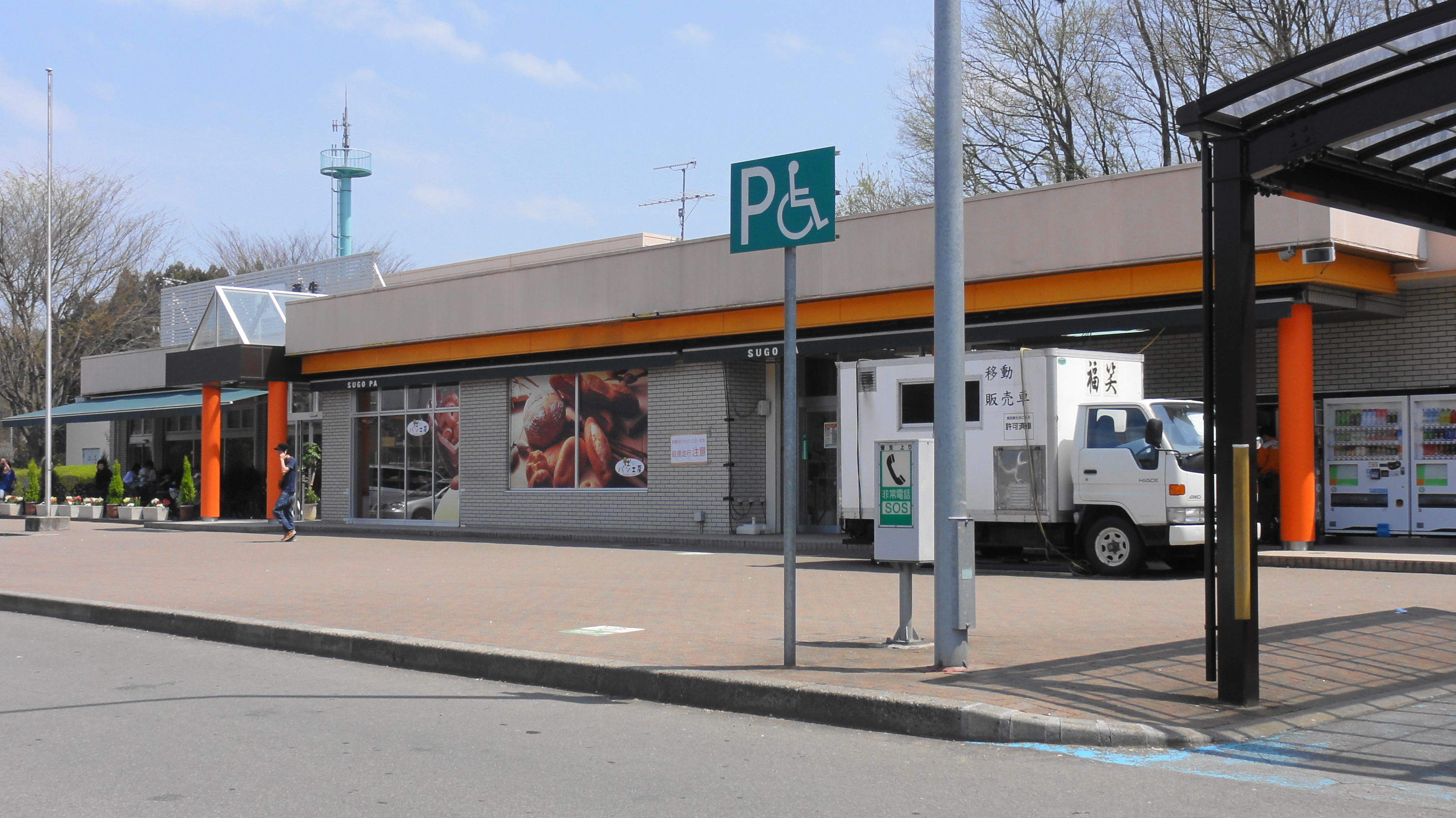 Sugo Parking Area,Miyagi prefecture, Japan